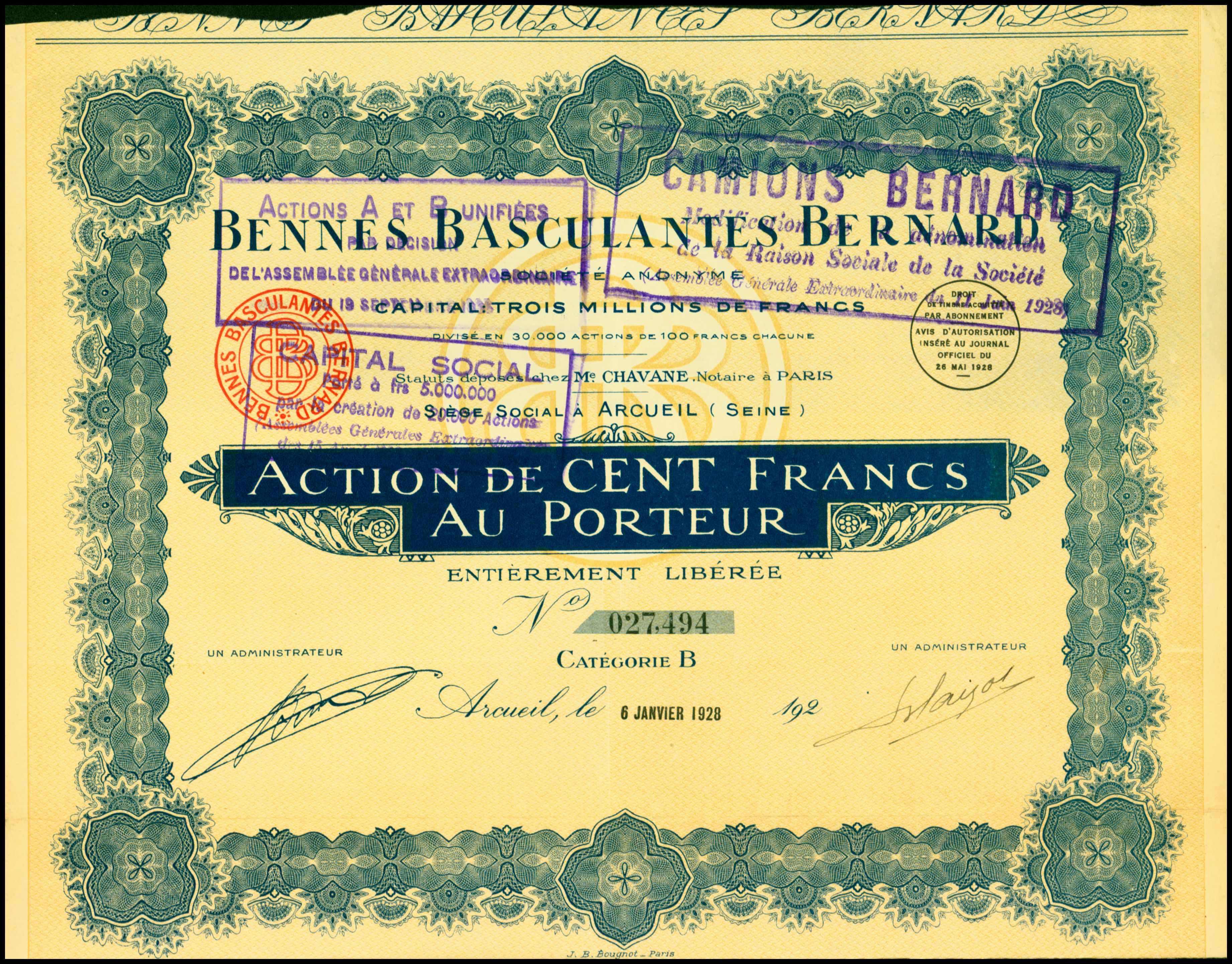 Share of the Bennes Basulantes Bernard SA, issued 6. January 1928